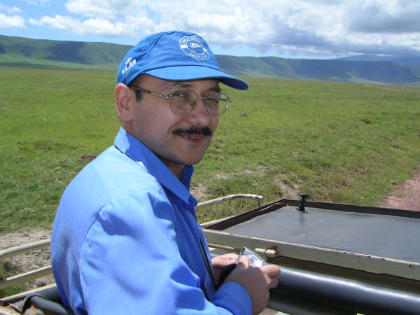 This photograph was done by me in Tanzania